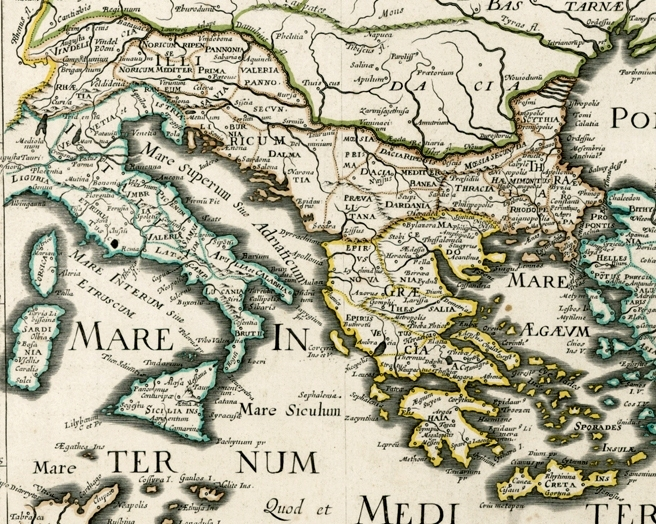 Nicholas Sanson: Romani Imperii qua Oriens est Descriptio Geographica . . . 1657